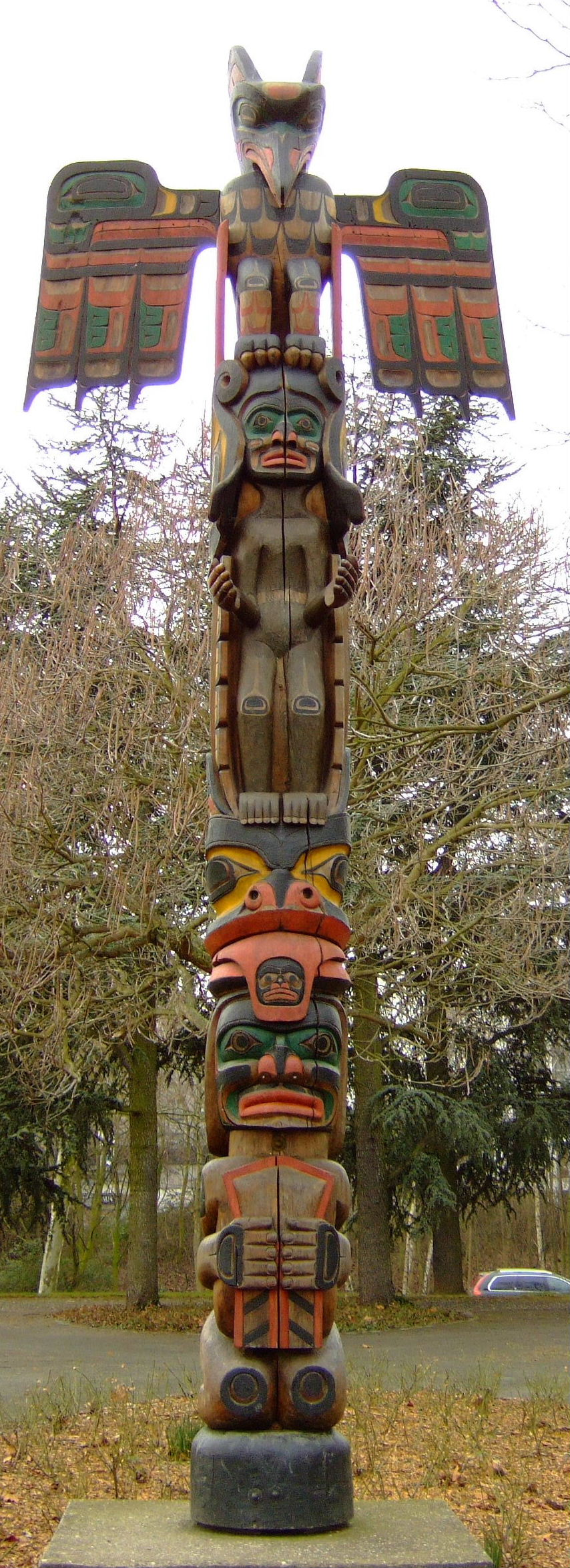 Totem Pole (Heraldic stake), work of Tony Hunt in the Rheinaue Leisure Park in Bonn.